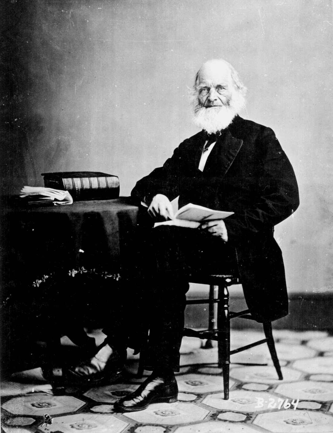 William Cullen Bryant, poet and editor of the New York Evening Post; full-length, seated.